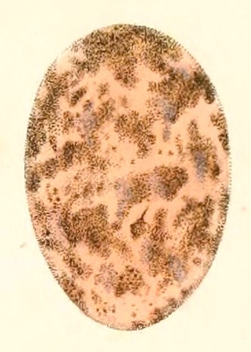 « Garrulus cyanomelas » = Cyanocorax cyanomelas (Purplish Jay) - egg